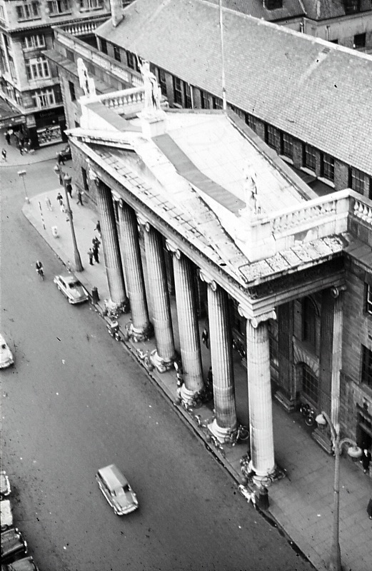 This cannot be replicated because Nelson's Pillar was blown up - presumably by the IRA - in 1965